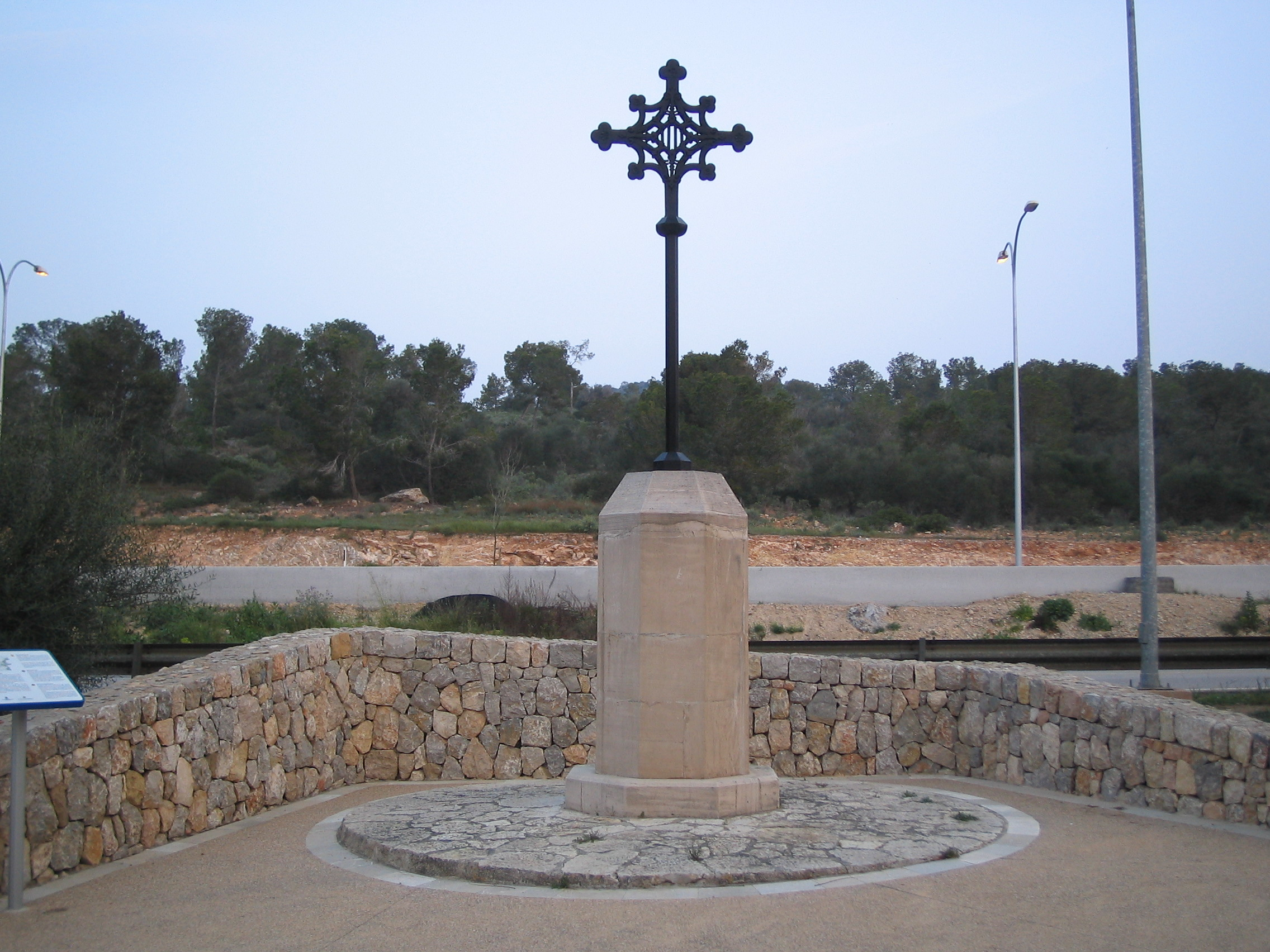 Monument regarding the burial site of the nobility knights that died in battle during the conquer of mallorca in 1229, Gillem Montcada and his nephew Ramón.